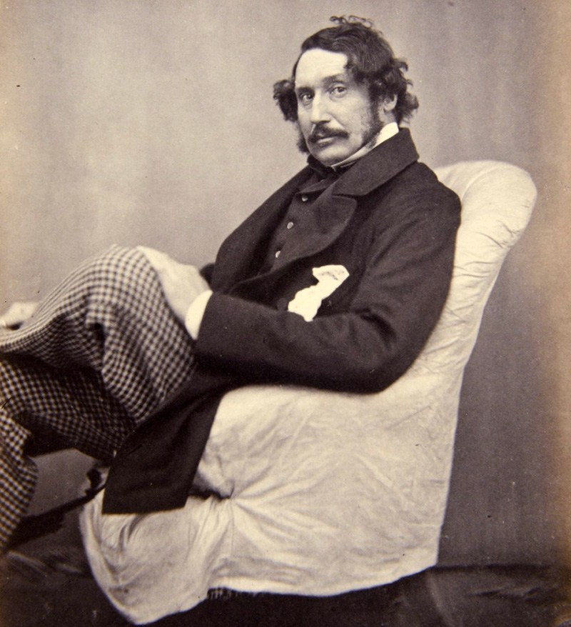 Lieutenant Colonel Robert Blane owner of a house in Sunninghill